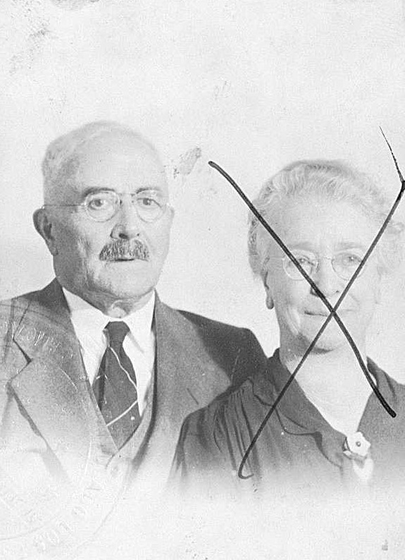 "Brasil, Cartões de Imigração, 1900-1965," database with images, FamilySearch ( : 8 May 2019), null, Immigration; citing 1947, Arquivo Nacional, Rio de Janeiro (National Archives, Rio de Janeiro).